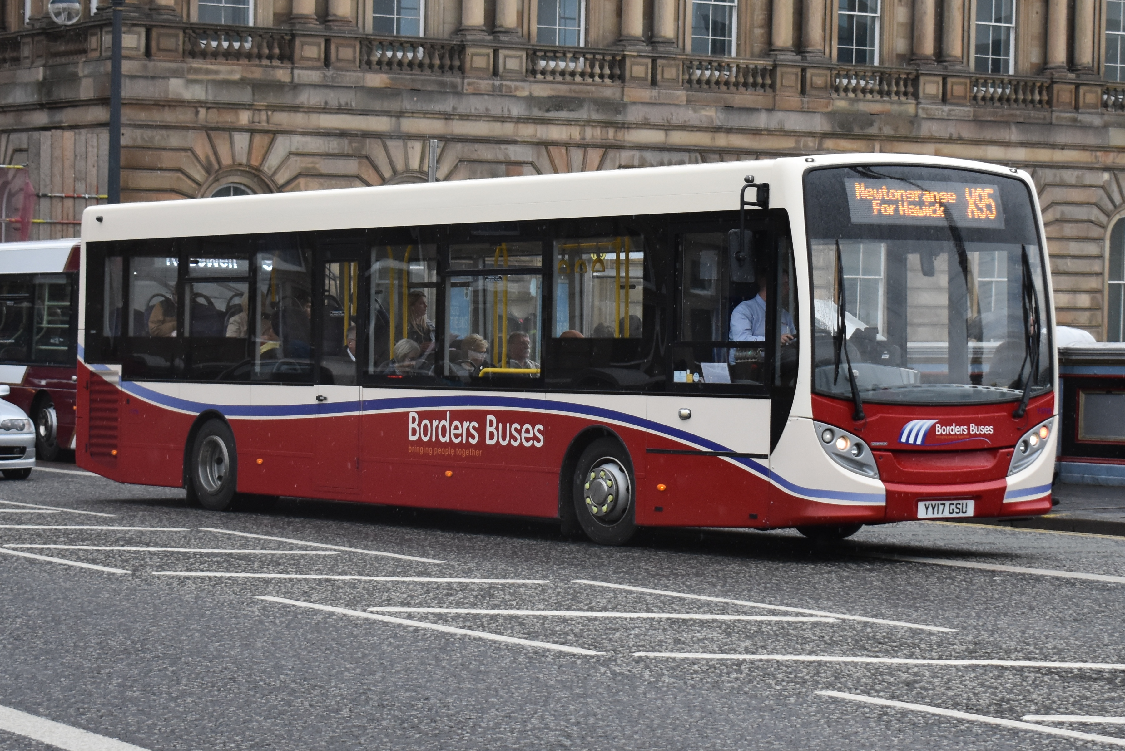 11715, YY17 GSU AD Enviro 200 seen at North Bridge, Edinburgh.